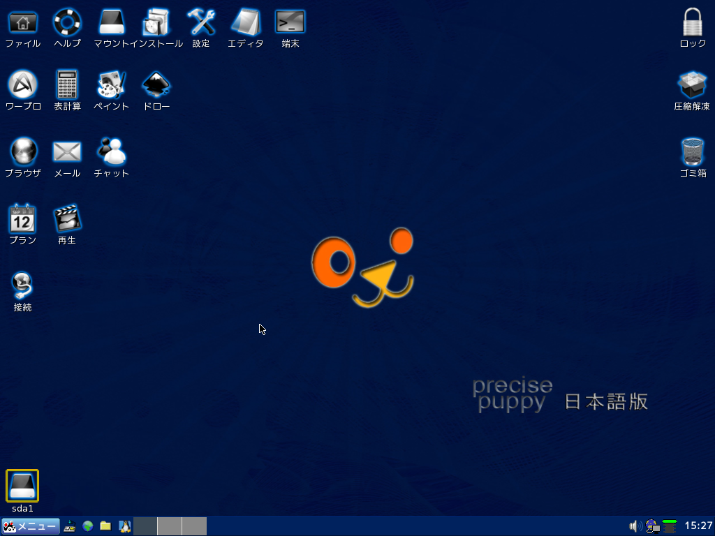 screenshot of Precise Puppy 5.5 Japanese Edition